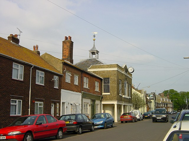 The Guildhall, Queenborough. Built around 1794 to replace the earlier structure of the old courthouse it is used regularly for meetings of the Queenborough town council. Queenborough was given its name by King Edward III who visited here and liked the place so much he decided to rename it in honour of his wife, Queen Philippa of Hainault. He also had a castle built (which no longer exists) in the area.